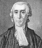 Image of Jean Sylvain Bailly, academician of the French Academy and 1st mayor of Paris.